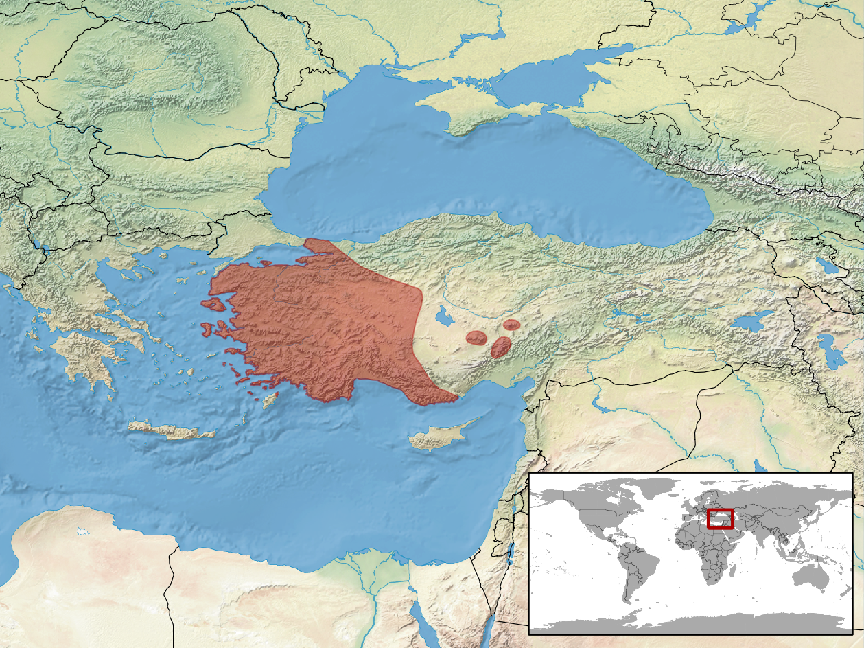 geographic distribution of Montivipera xanthina (Native: Greece; Turkey) Range without Montivipera bulgardaghica, sometimes recognized as distinct species.